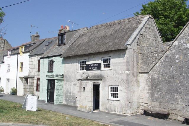 Portland Museum Contains local artifacts and shipwreck items. It is formed from two 16th and 17th century cottages, one of which is featured in Thomas Hardy's book "The Wellbeloved", where it is called "Avice's Cottage". The museum was established in 1932 by Dr Marie Stopes, the birth control pioneer.